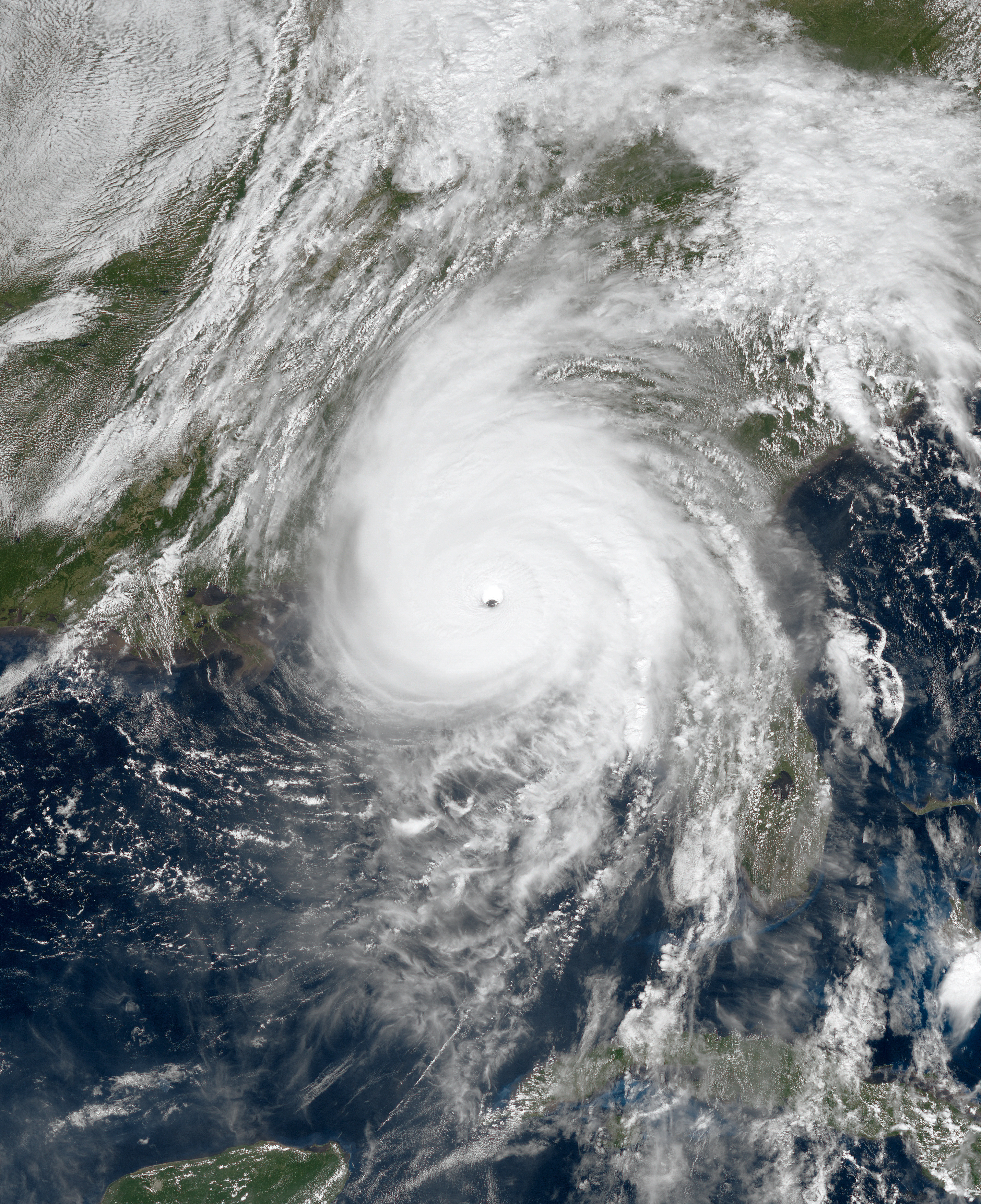 Hurricane Michael beginning to make landfall on the Florida Panhandle on October 10, 2018, near the time of its peak intensity as a Category 5 hurricane.